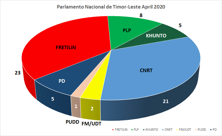 Parliament of East Timor after the end of the new coalition 29 April 2020